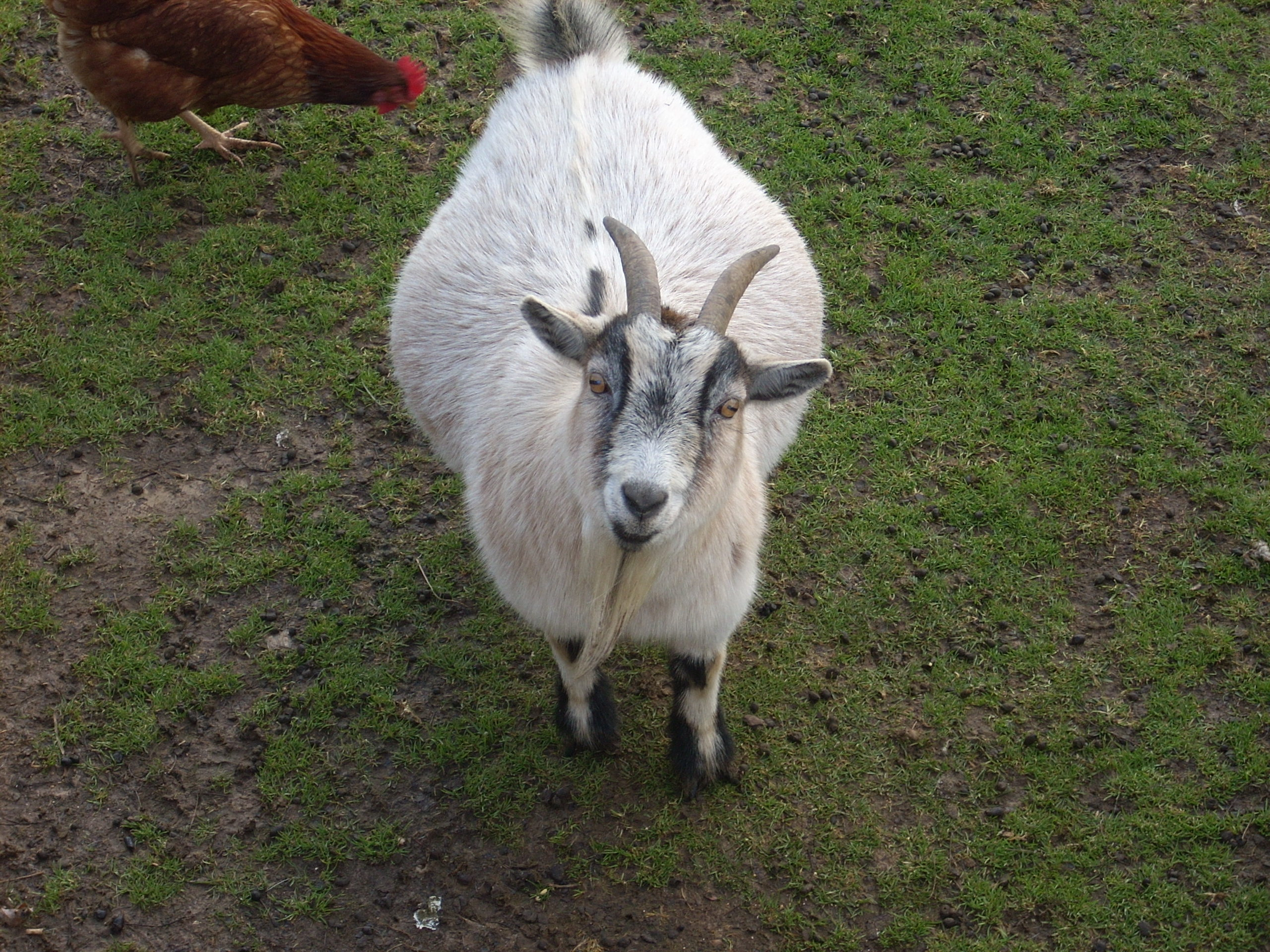 at an Amish farm in Lancaster County, Pennsylvania. The family has a farm, roadside stand, and farm animal viewing area. I am pretty sure this nanny goat is pregnant.